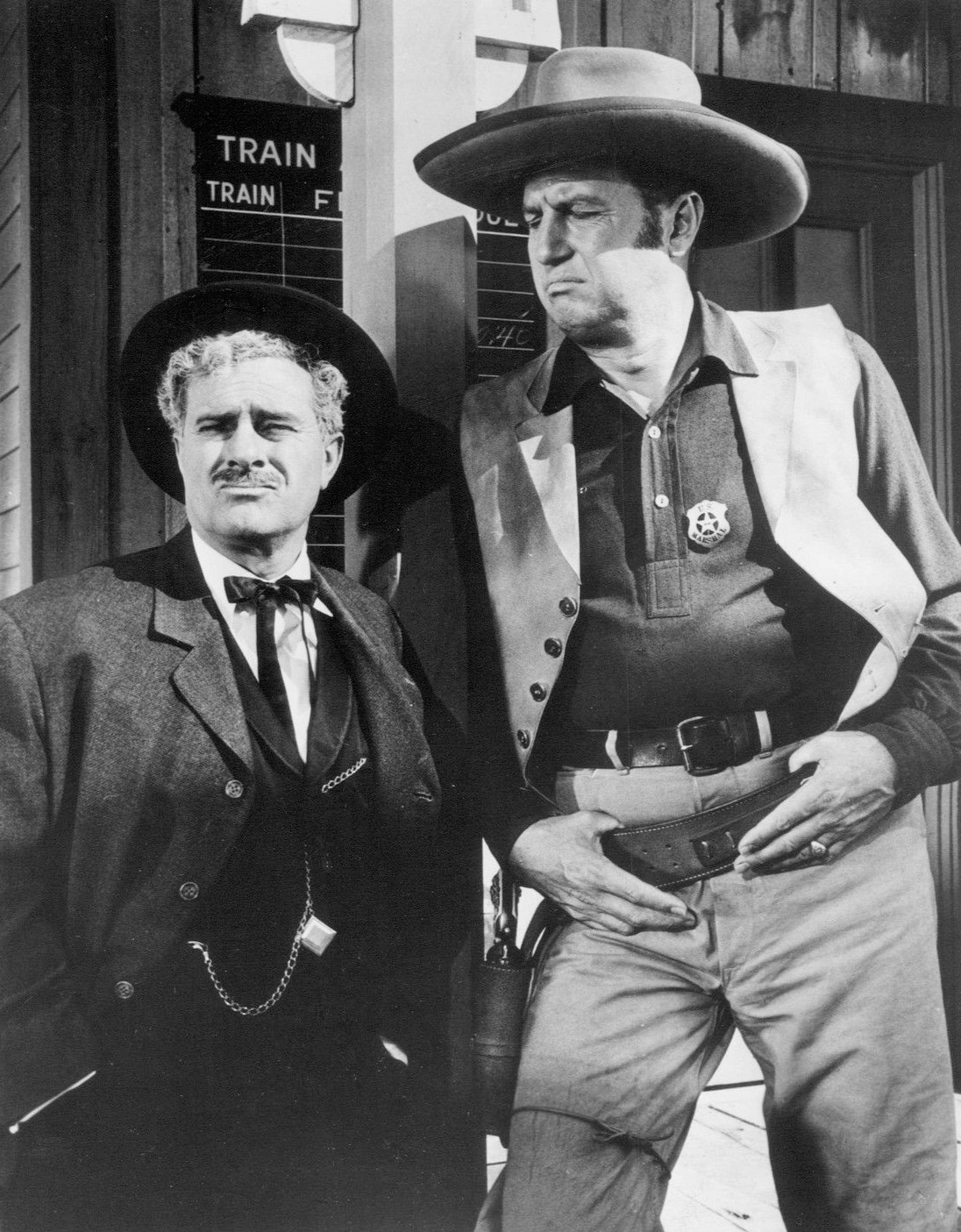 Photo of Marshall Kent (left) and Ben Gage as guest stars in an episode of Maverick.